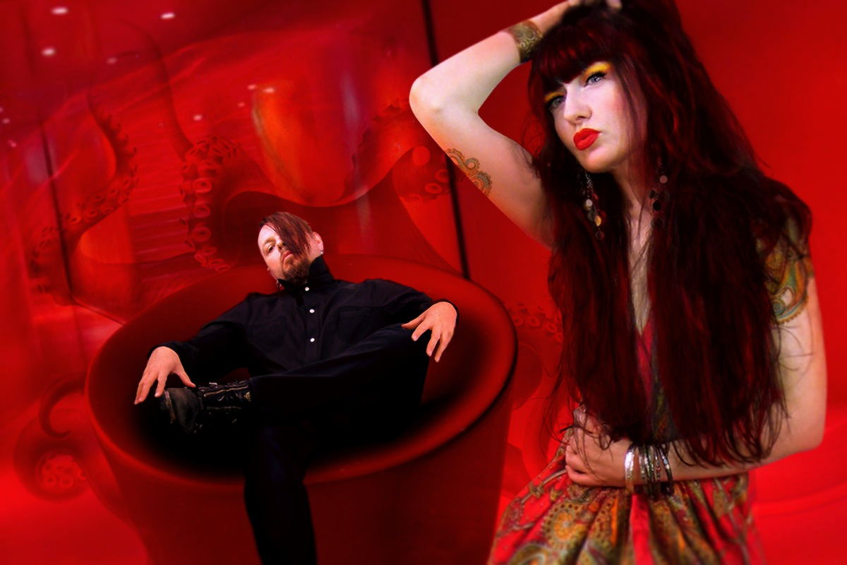 More Machine Than Man, promotional photo for 2012 album Dark Matter. Rob Zilla (left), Tasha Katrine (right) Industrial Rock from Seattle, WA.